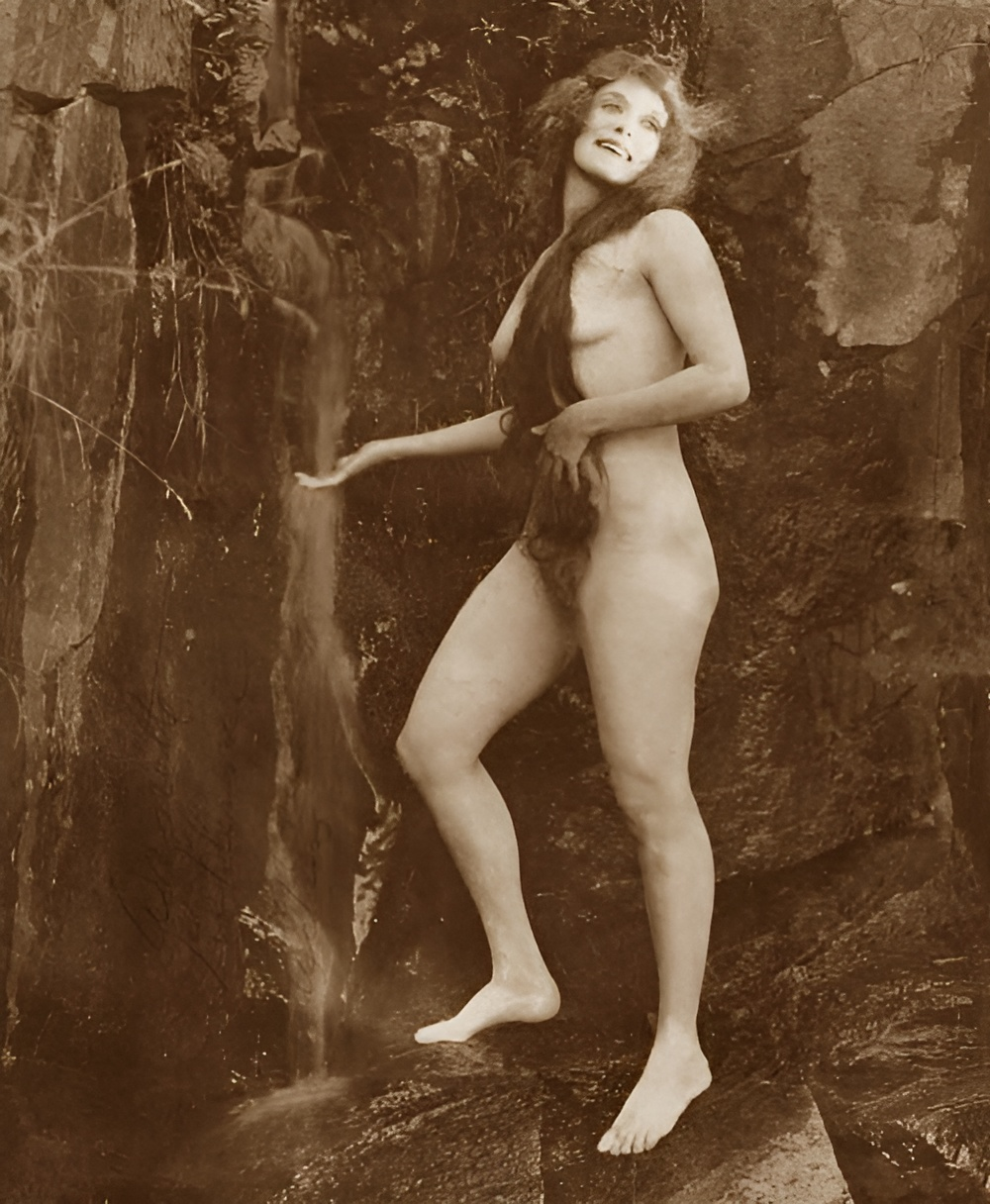 Actress Annette Kellerman in 1916 film A Daughter of the Gods (1916).